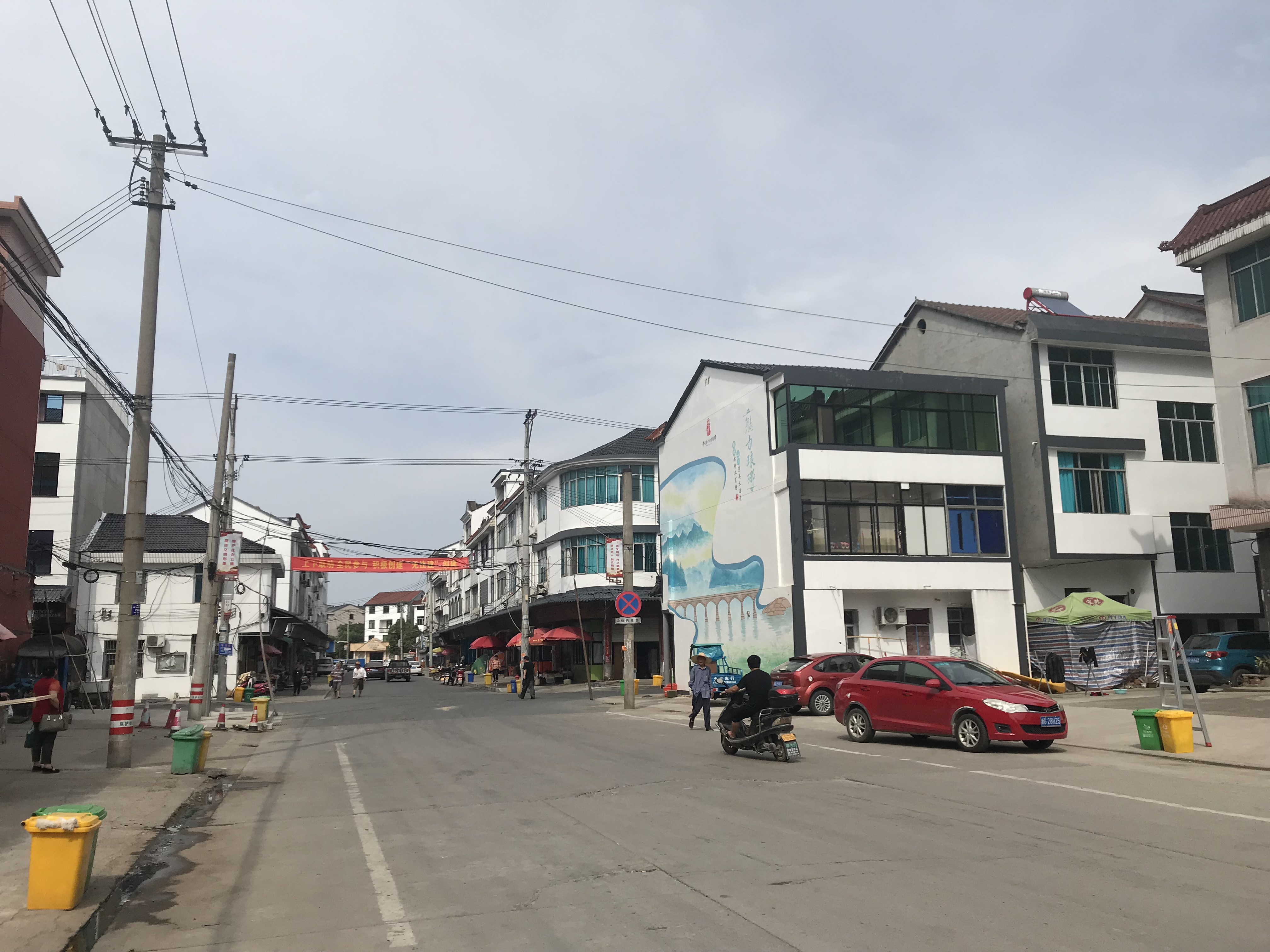 201805 Main Street of Langya